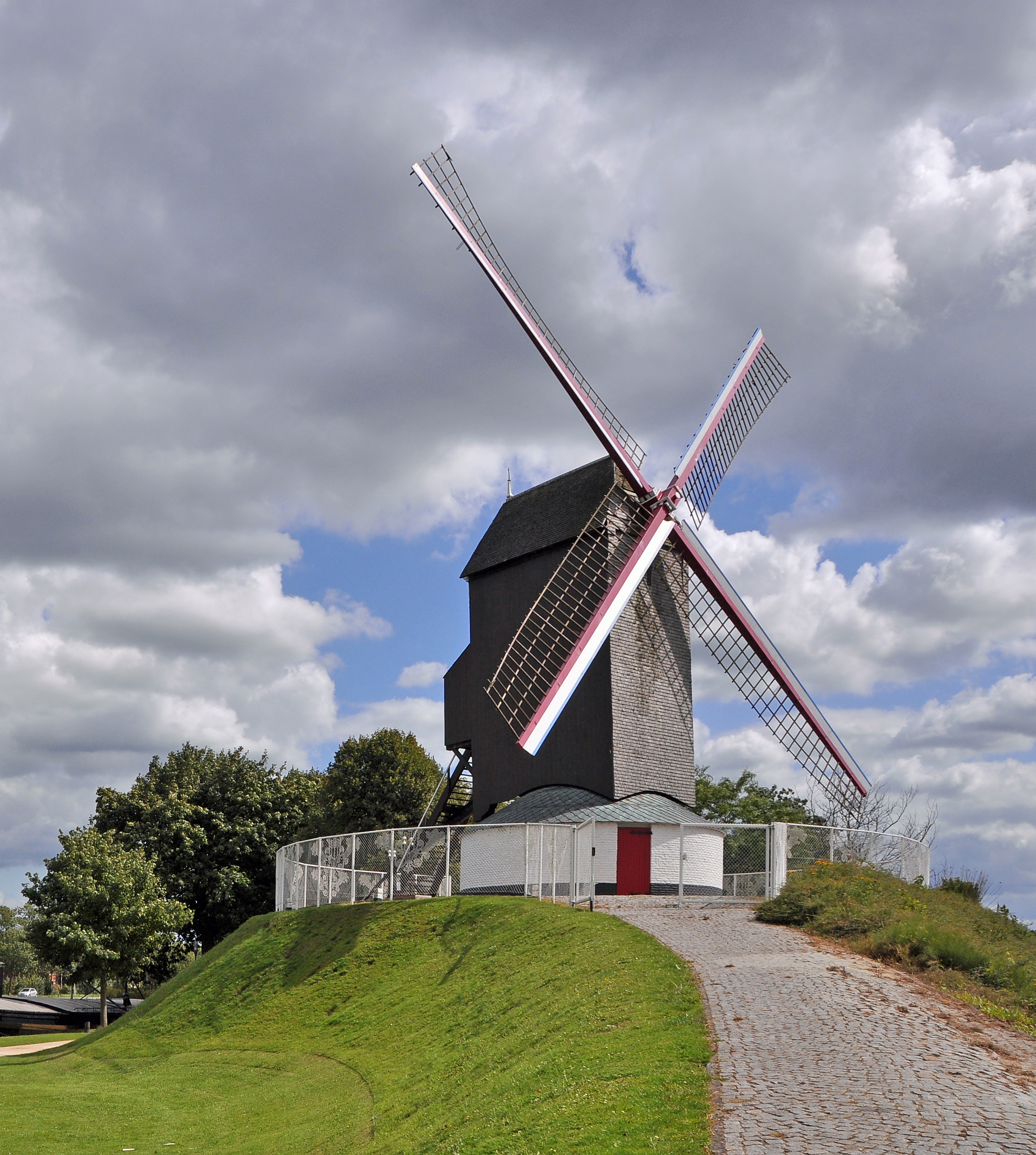 Bruges (Belgium): windmill Koeleweimolen